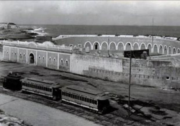 Bateria de la Reina. Havana, Cuba